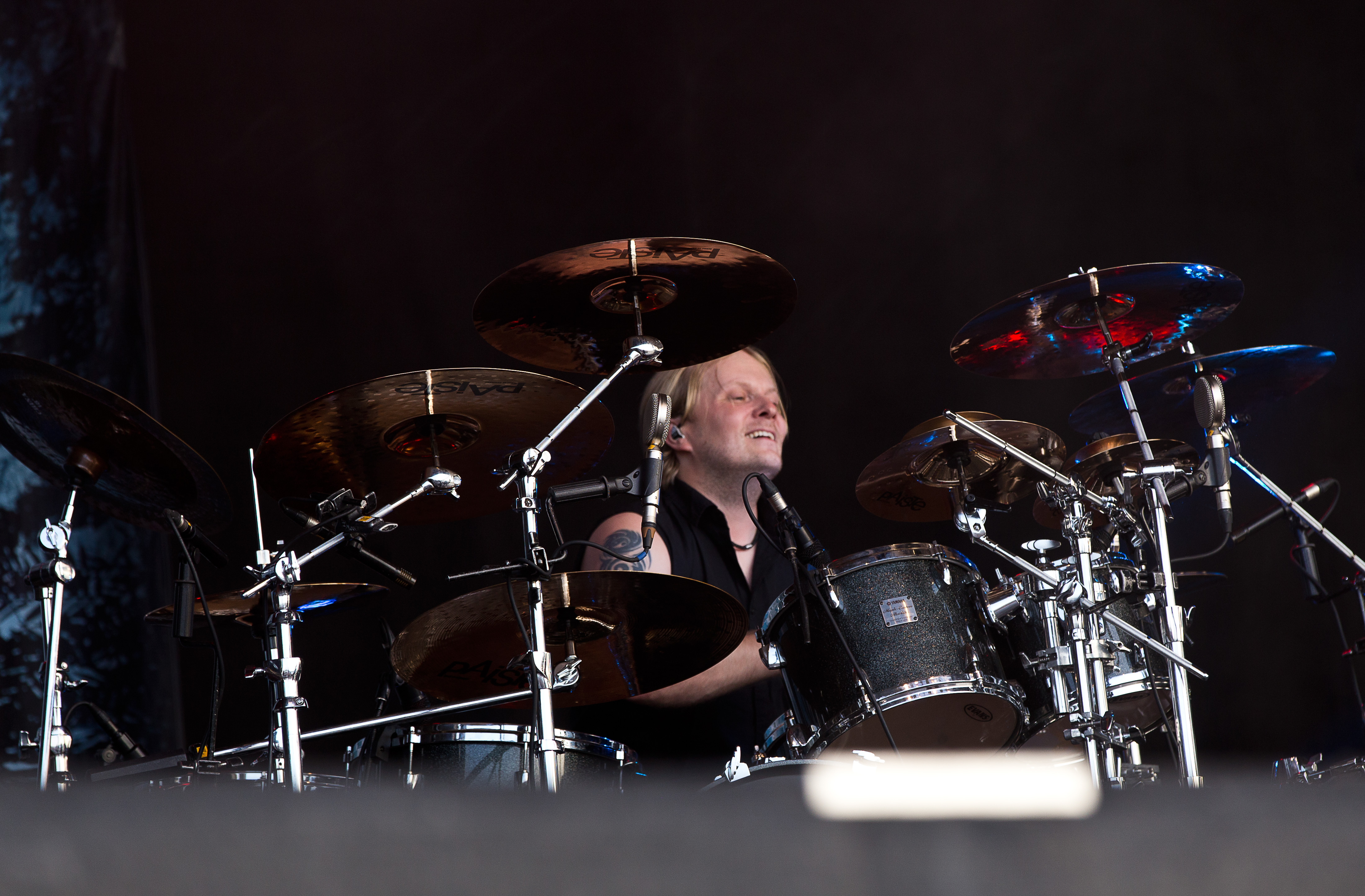 The Finnish power metal band Sonata Arctica at the Rockharz Open Air 2016 in Ballenstedt/Germany.